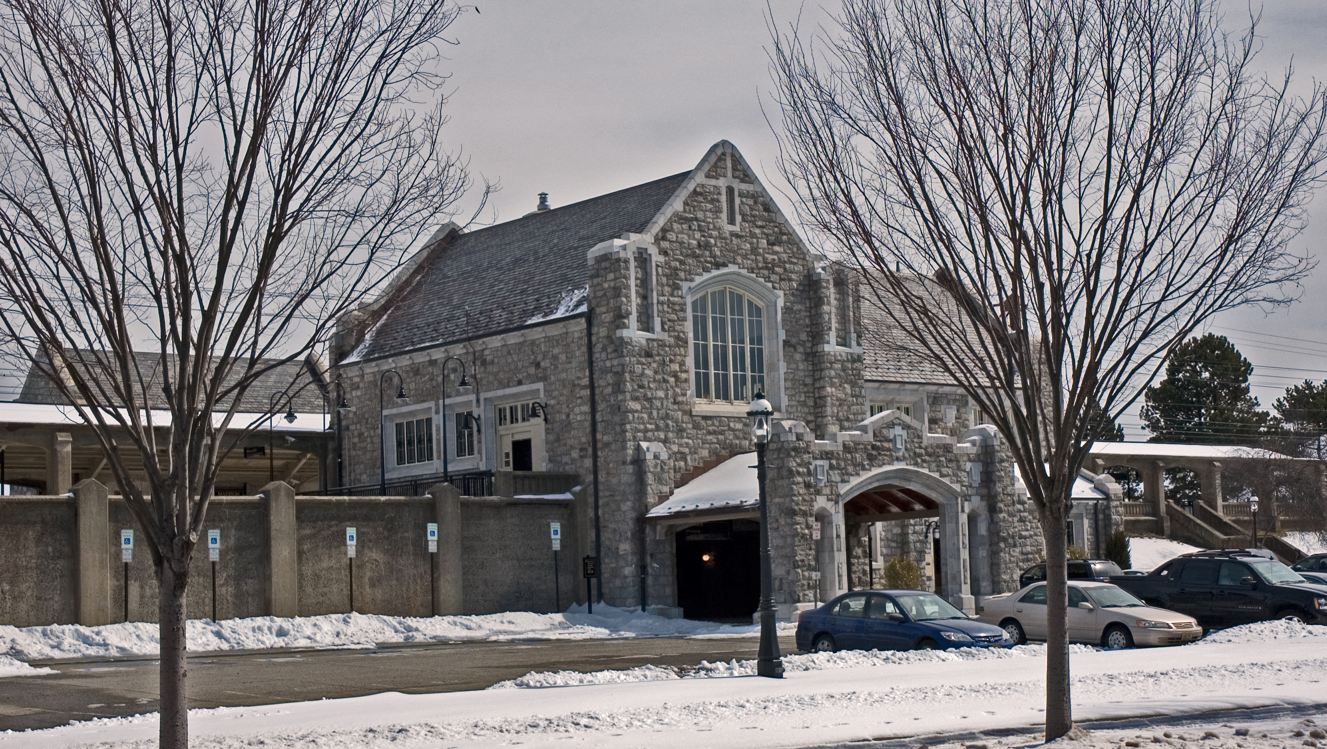 Looking east at Madison, New Jersey train station with snow. Part of New Jersey Transit Morristown branch on the Morris Essex Line. Photography by Leif Knutsen